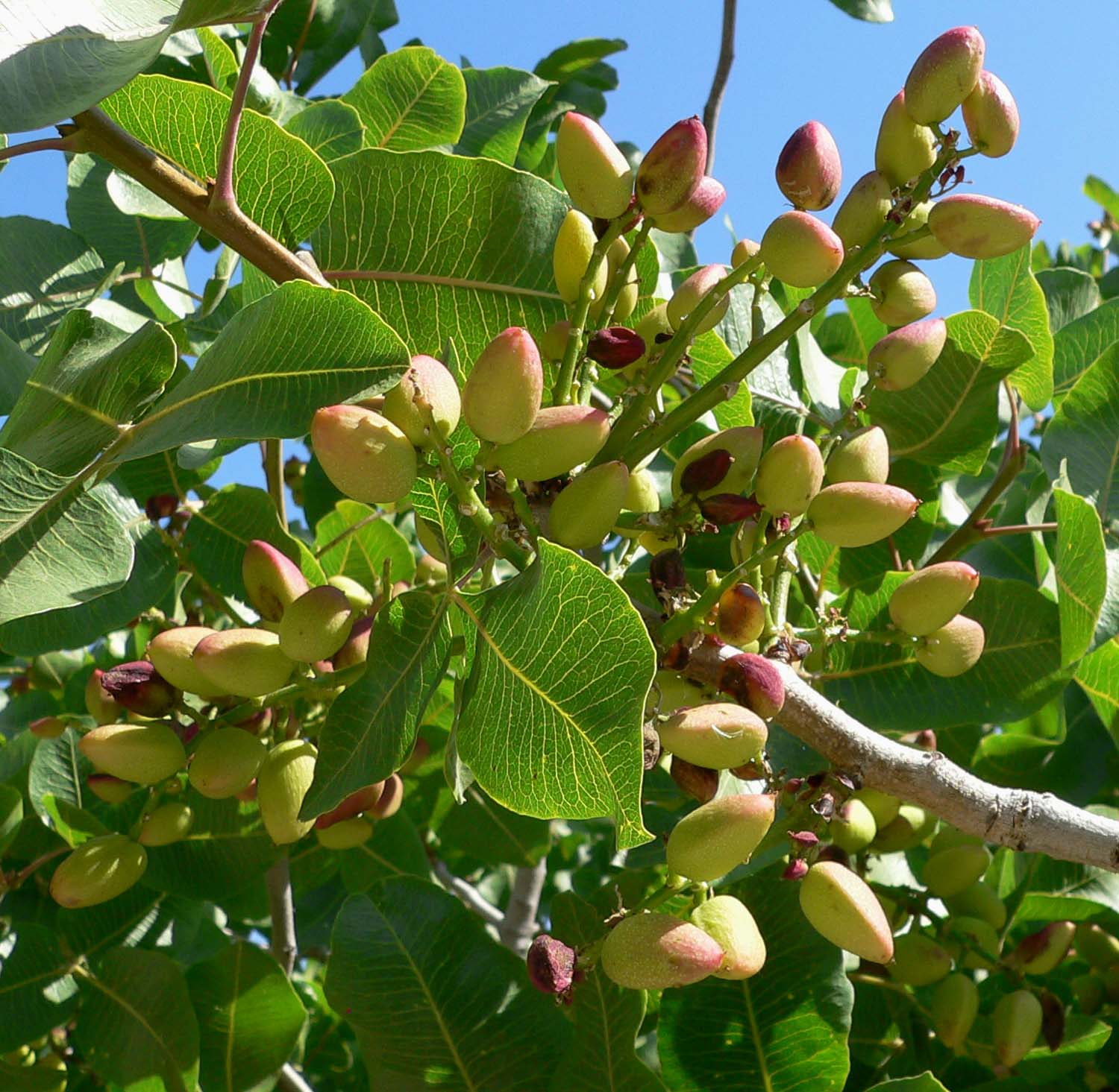 Photo of Pistacia vera 'Kerman' nuts at the Springs Preserve garden in Las Vegas, Nevada